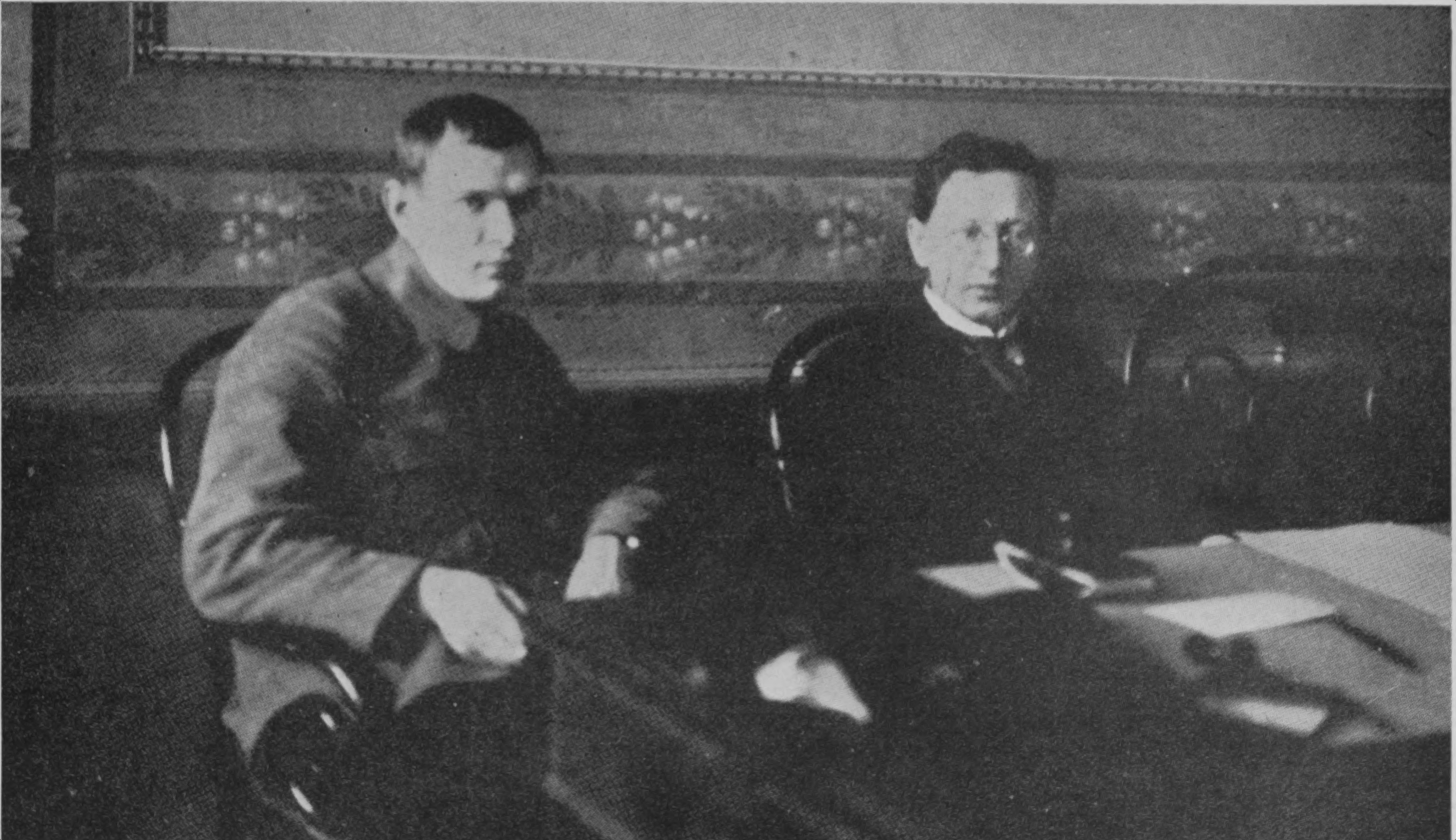 Moisei Uritsky (right), leading Bolshevik politician and chief of the Petrograd Cheka.